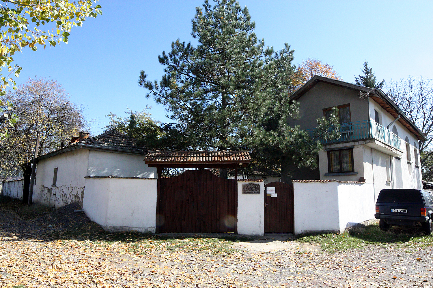 Holly Spirit Monastery near Godech